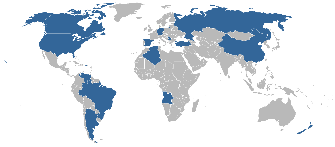 Teams of the 2002 FIBA World Championship